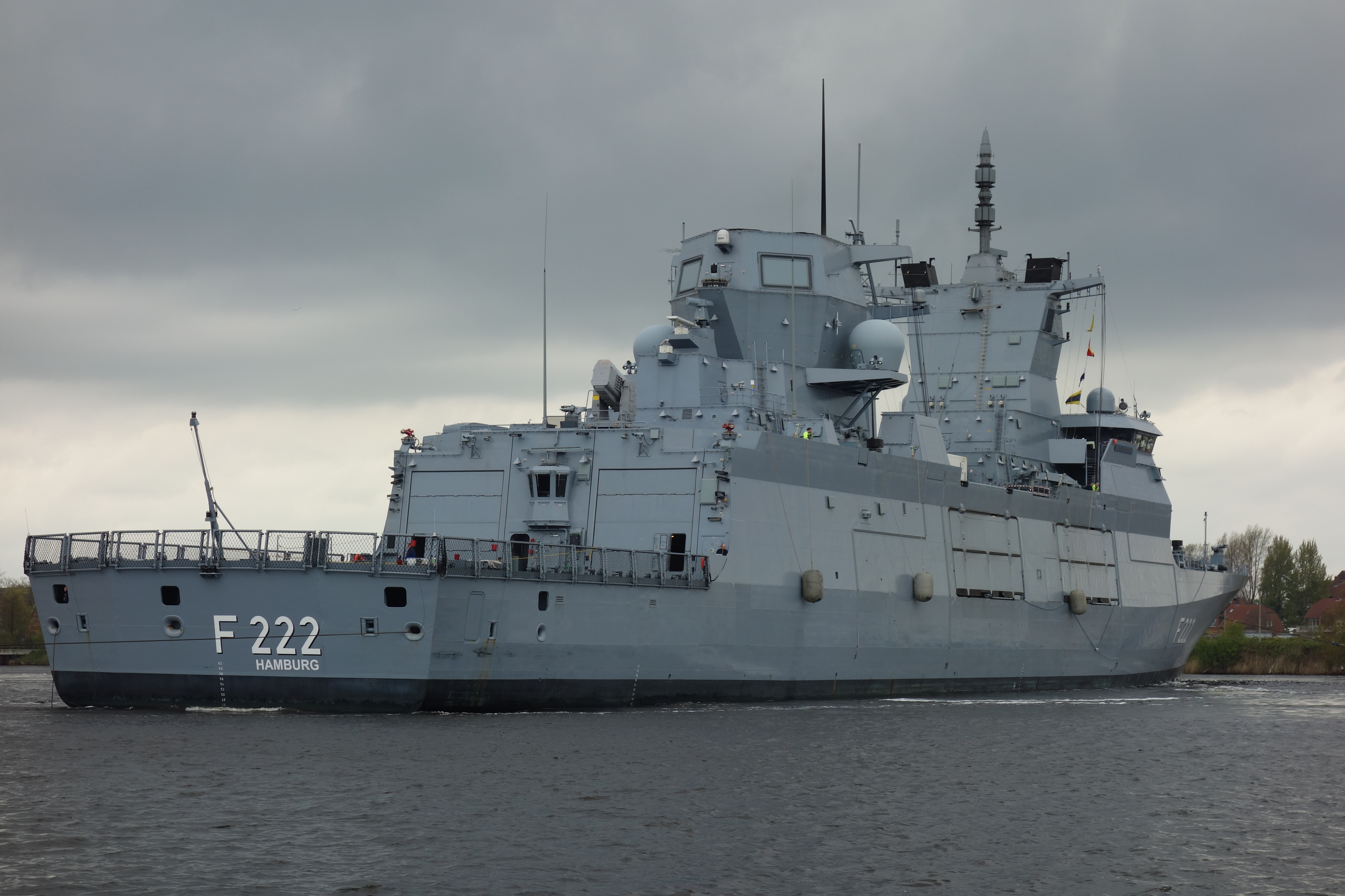 Not yet commissioned frigate Baden-Württemberg at the deperming range in Wilhelmshaven